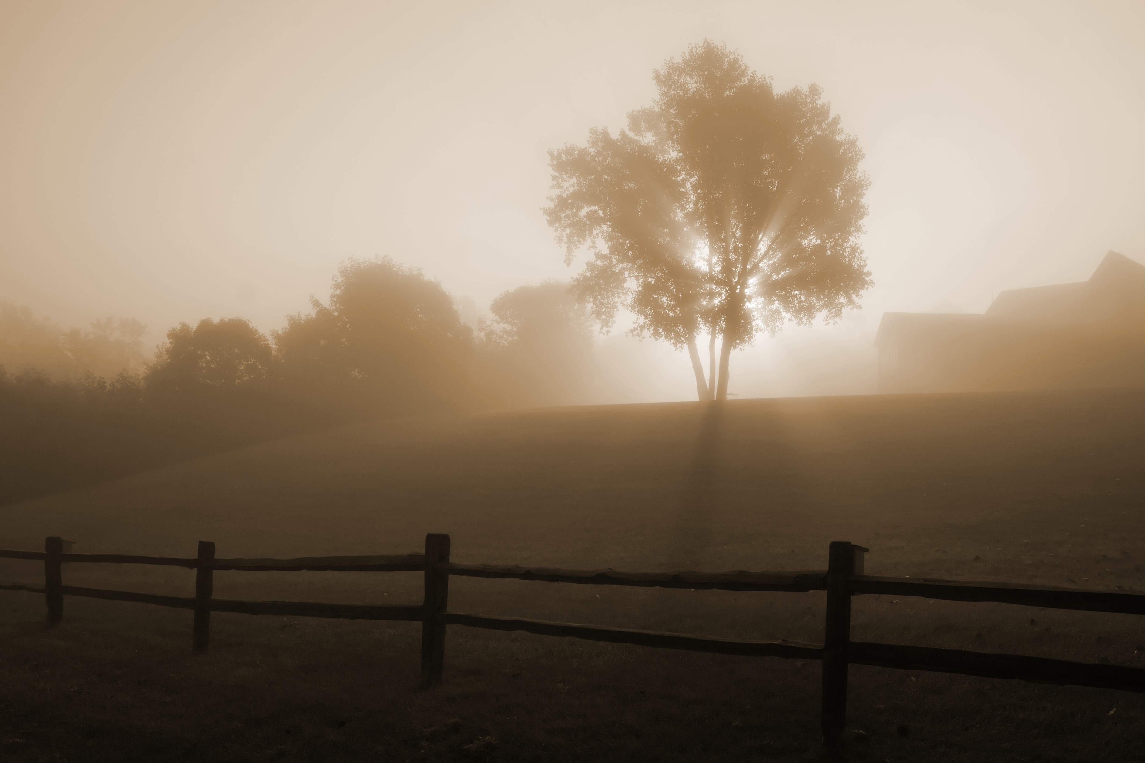 Sunrise in the fog, near Horicon, Wisconsin.